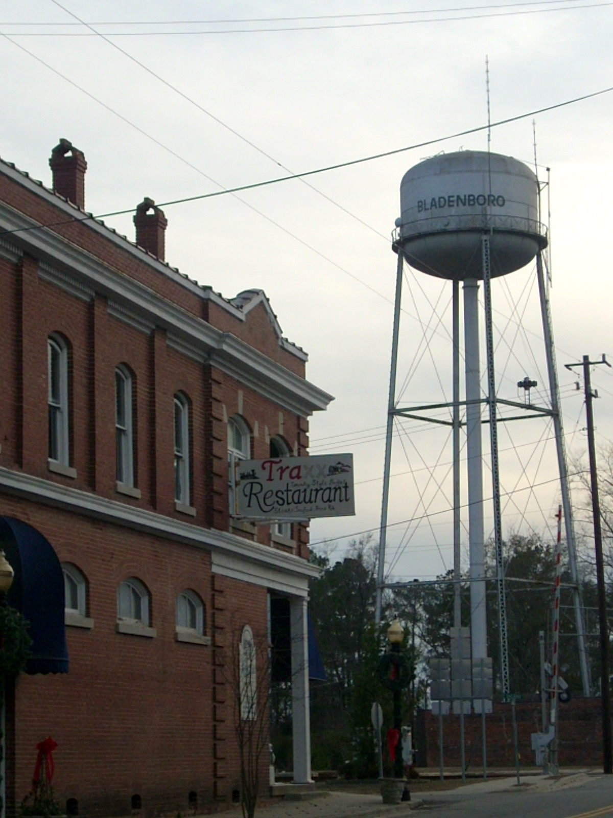 The now-closed Traxx Restaurant, next to the water tower in Bladenboro, NC